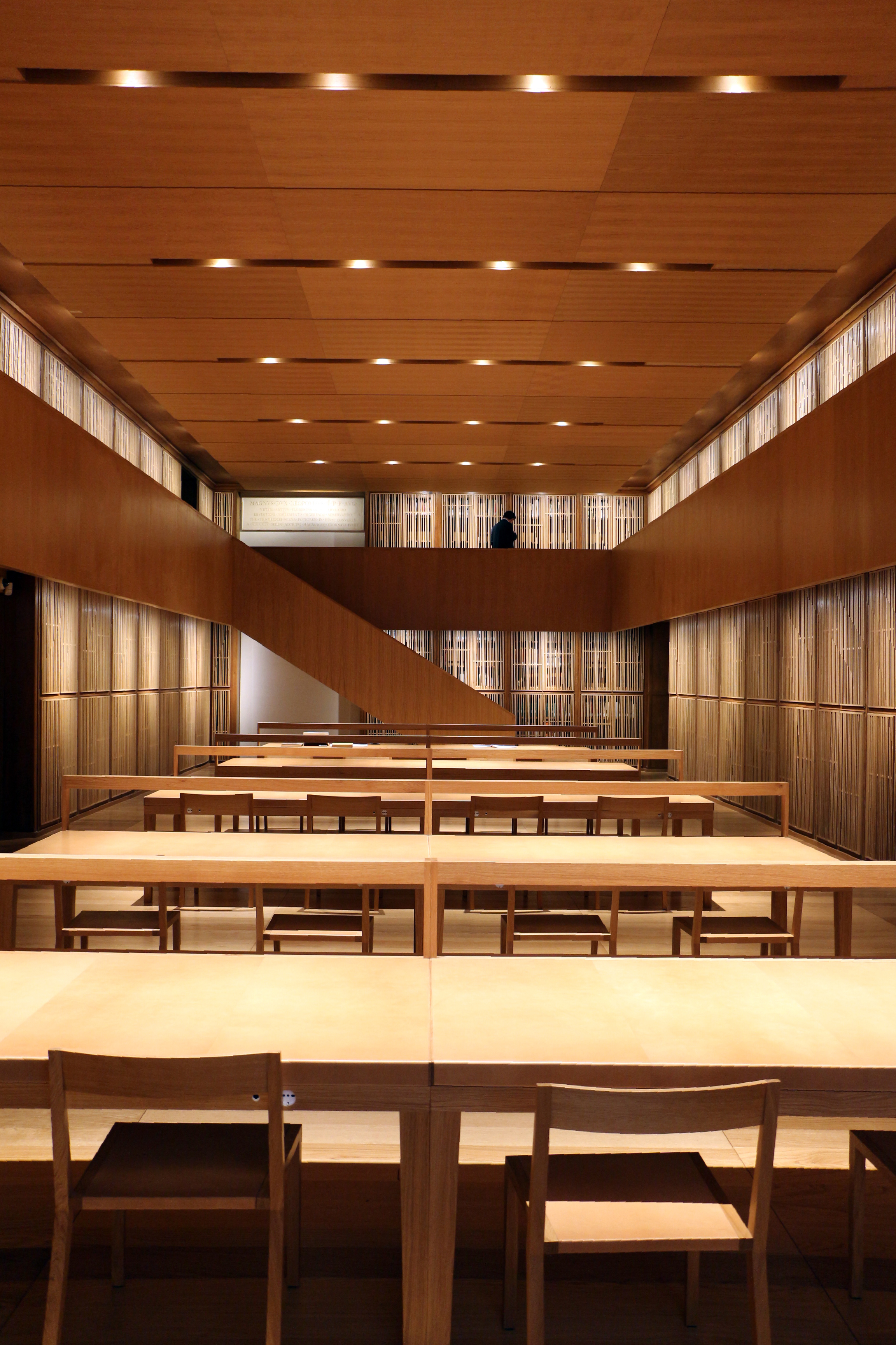 Gabinetto dei Disegni e delle Stampe